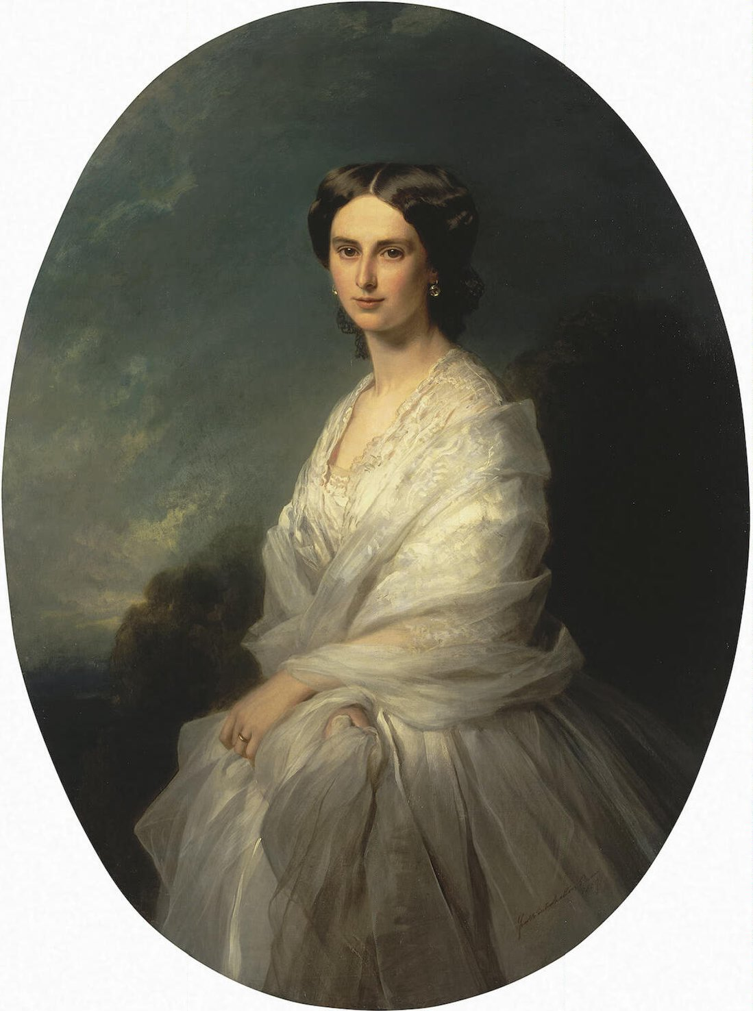 Sophia Bobrinskaya